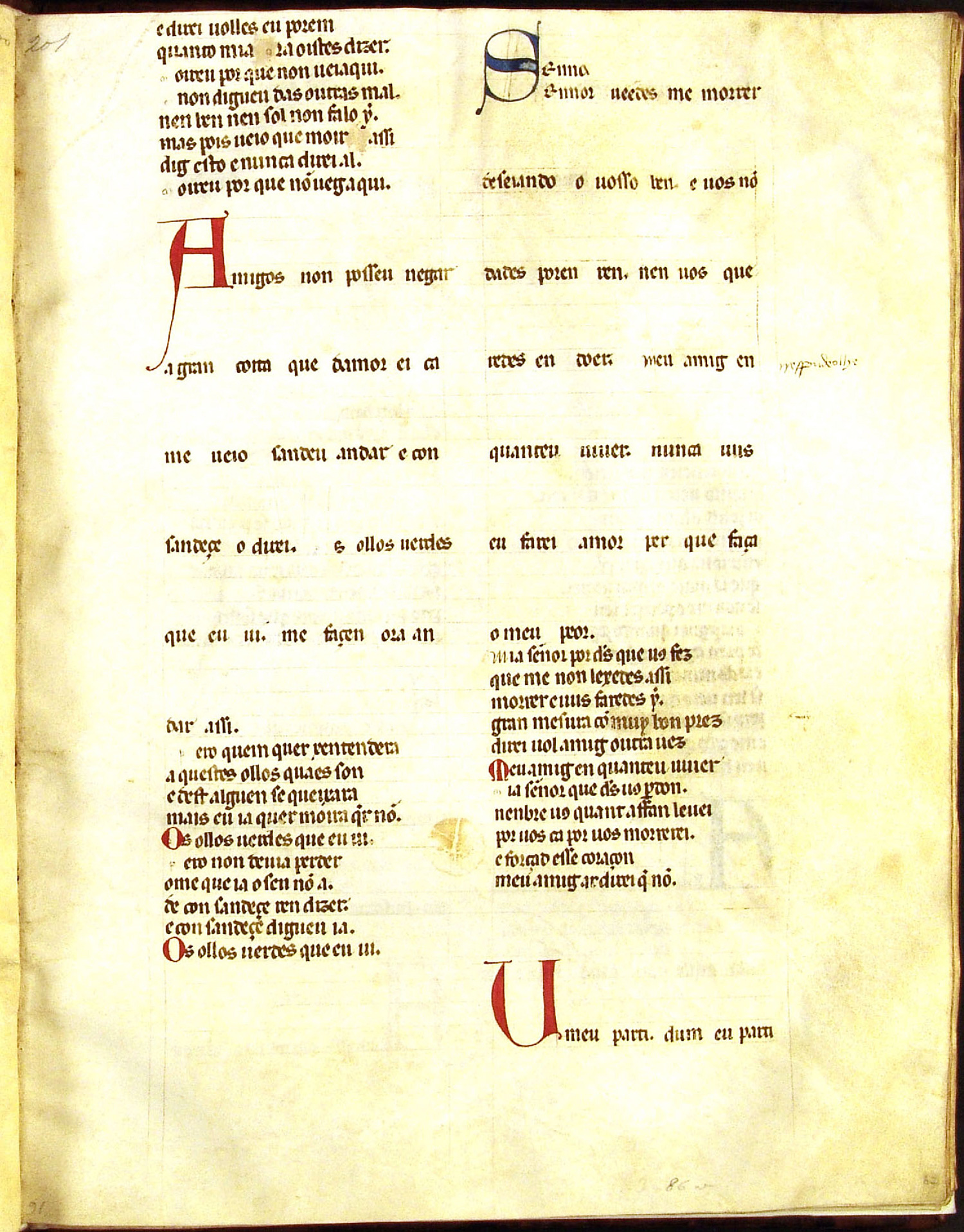 Cancioneiro da Ajuda manuscripts